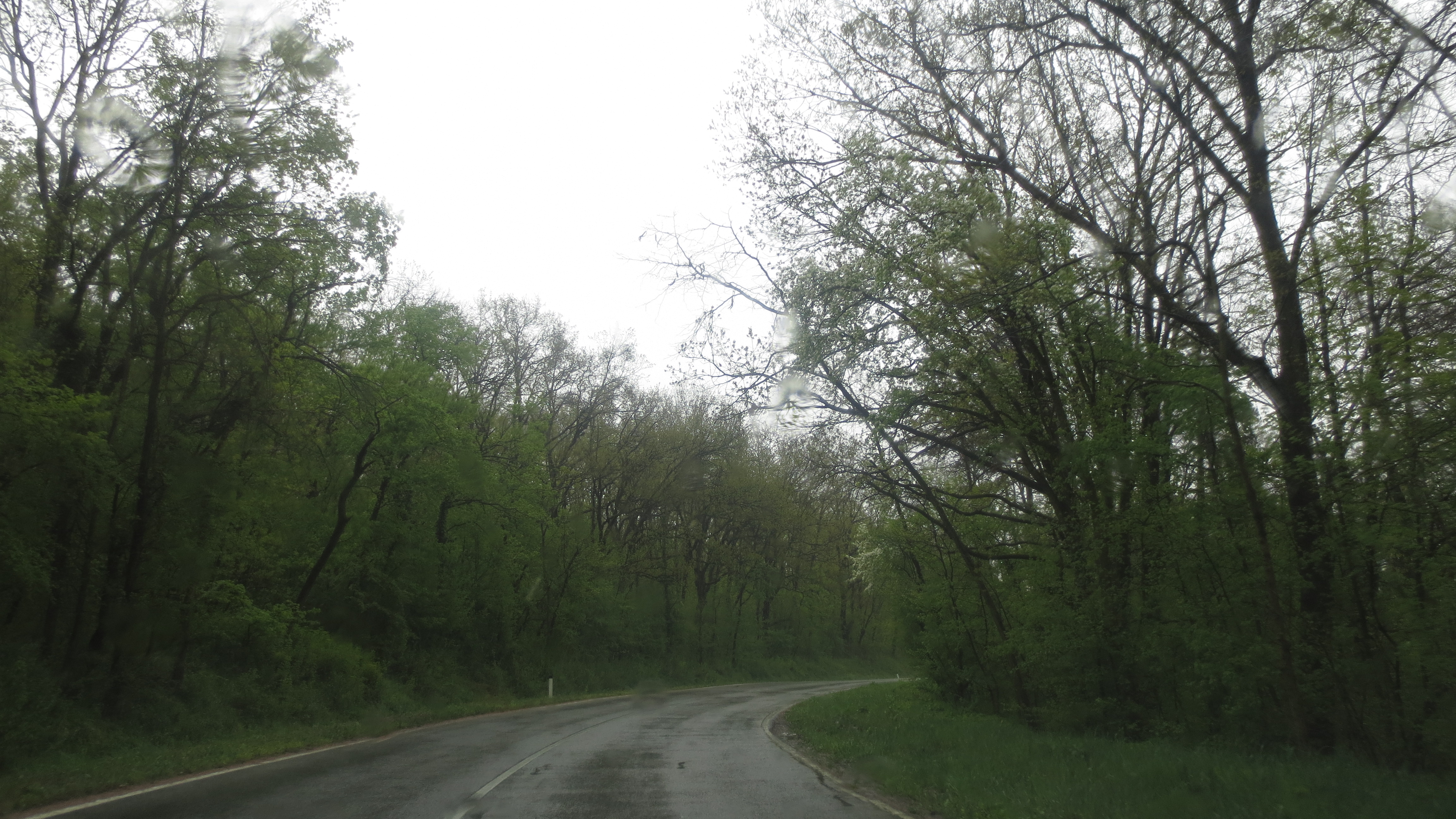 Image from the municipality of Vozjdovac, southeast of Beograd, Serbia. This is the Avala Forest under the Avala Mountain, along the road R-149 (R-200).